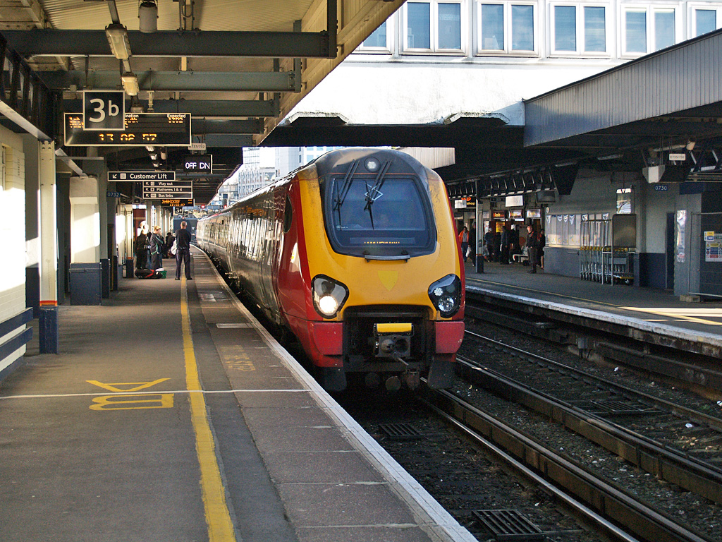 The following is the author's description of the photograph quoted directly from the photograph's Flickr page. "XC Trains Limited (leased from Halifax Bank of Scotland) Bombardier %u2018Super Voyager%u2019 class 221 diesel-electric multiple unit number 221117 (60467, 60867, 60967 Sir Henry Morton Stanley, 60767 and 60367) of Central Rivers Depot departs from platform 3a at Southampton Central station forming the 07:14 (SO) Darlington to Bournemouth (1O10). Saturday 26th January 2008 "